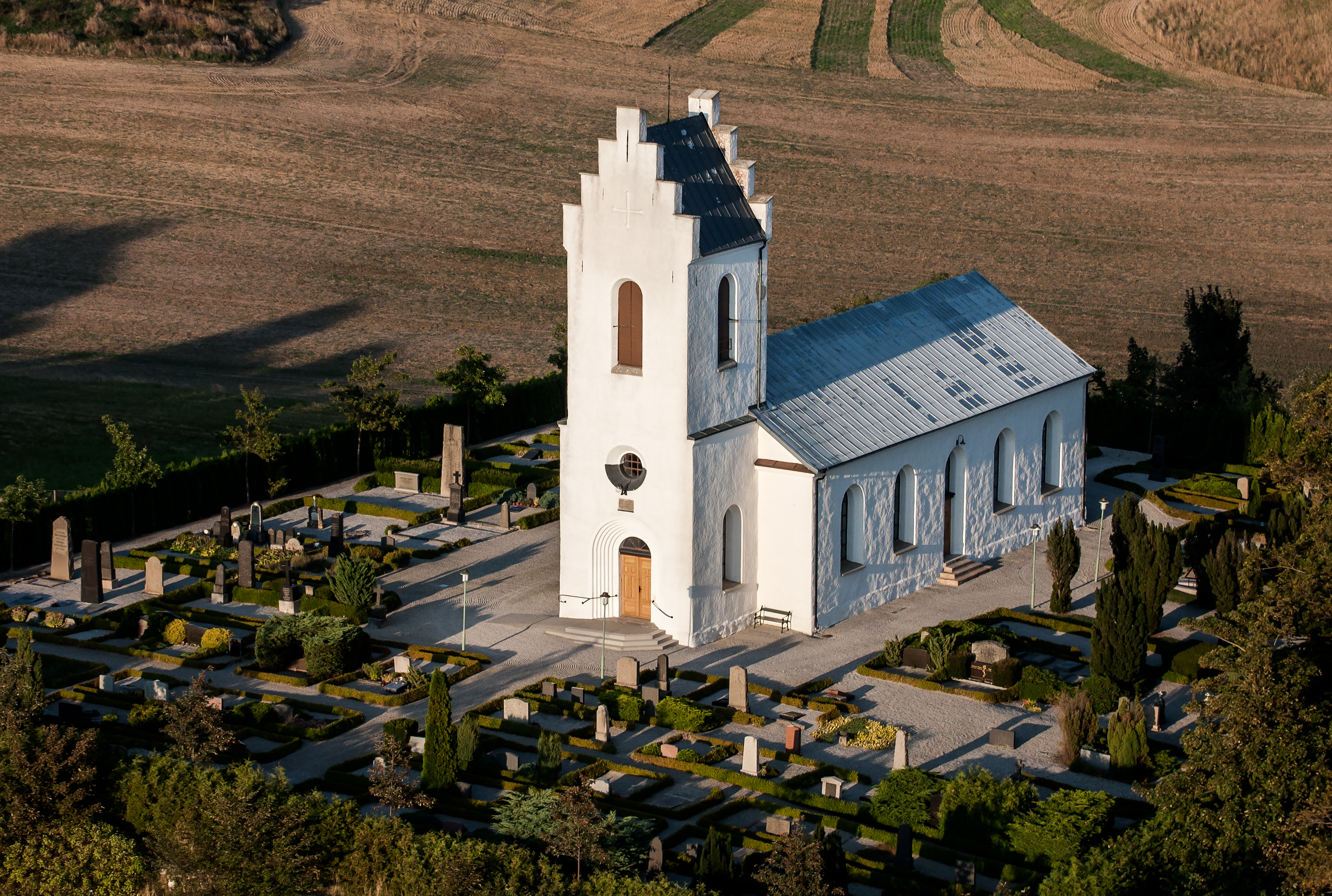 Dagstorp church